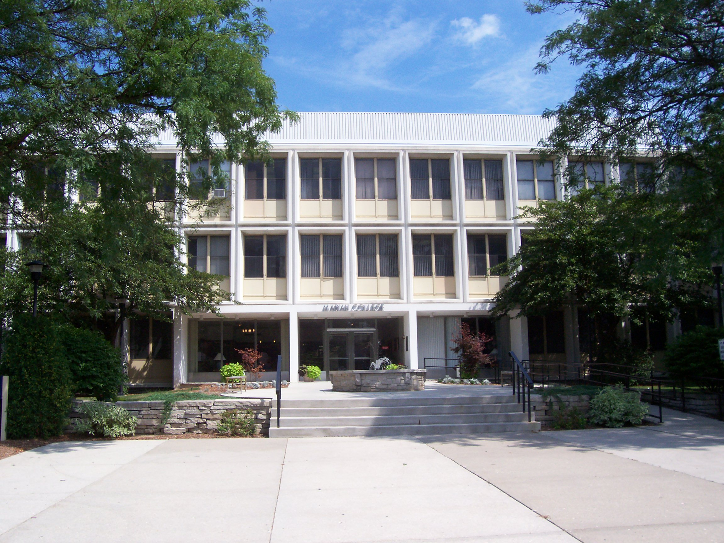 Administration building at Marian College (now Marian University) in Fond du Lac, Wisconsin. I took this image myself on August 10, 2006.